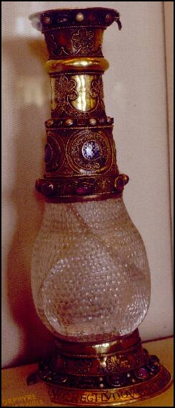 A photograph of Eleanor of Aquitaine's wedding gift to her first husband, Louis VII of France. It is a rock crystal vase with an inscription on the bottom that reads, "As a bride, Eleanor gave the vase to King Louis - Mitadolus to her grandfather, the King to me, and Suger to the Saints."